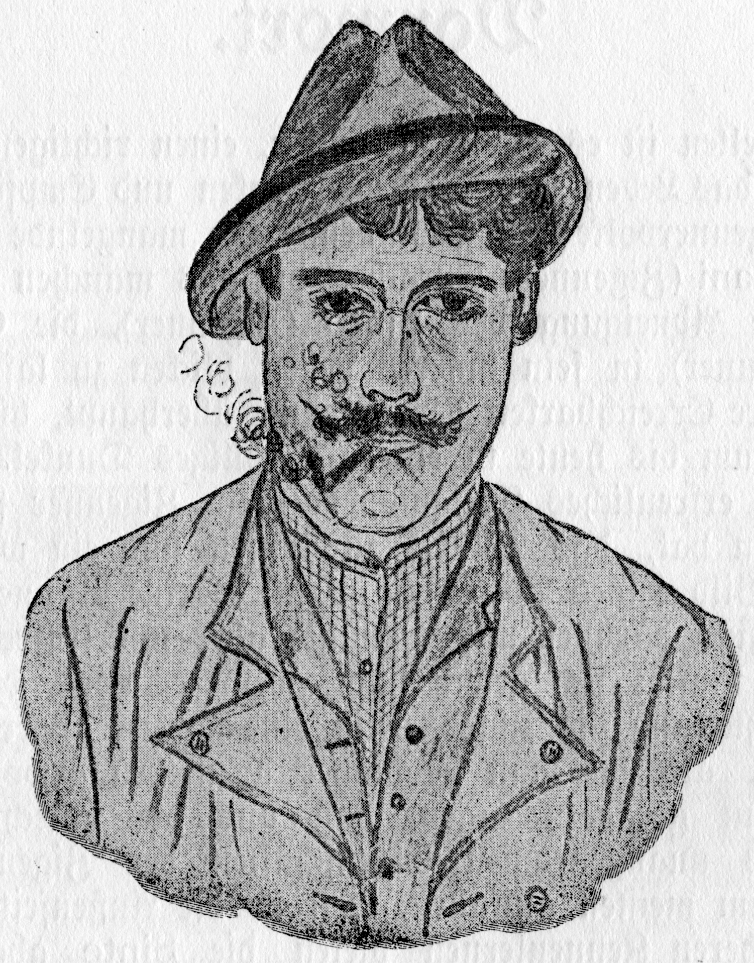 Portrait of Engelbert Wittich, made by himself at about 1911.